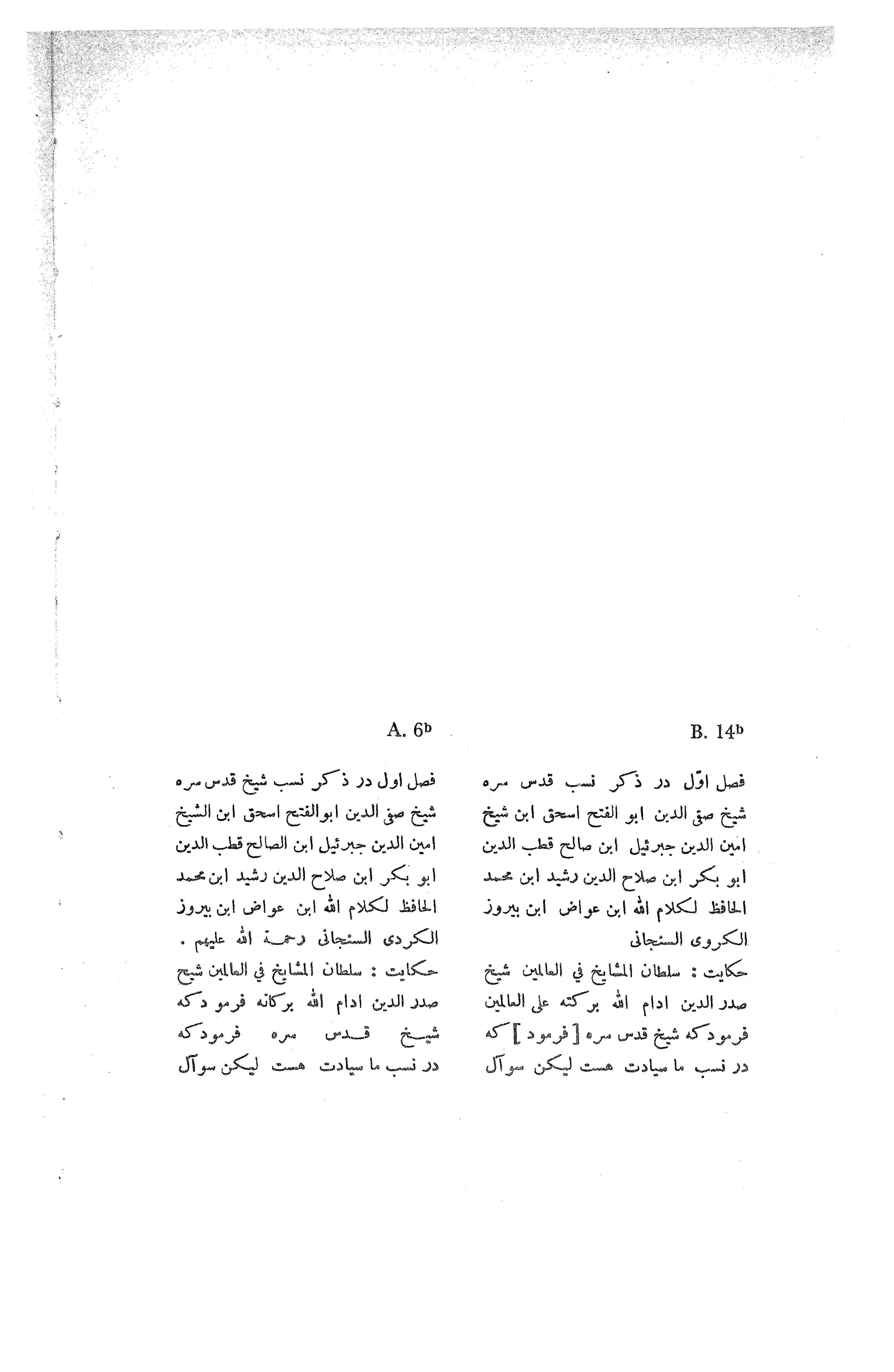 Taken from pg 347 of Z. V. Togan, "Sur l’Origine des Safavides," in Melanges Louis Massignon, Damascus , 1957. Samples from the two oldest and only pre-1501 extant manuscripts of Safvat al-Safa. Manuscript A Leiden ms. 2639 from 890/1485. Manuscript B Ayasofya ms. 3099 from 1491. Copyright does not apply as the text is taken from a manuscript from 520 years ago. The author of the manuscript, Ebn Bazzaz, passed away at least 600 years ago.